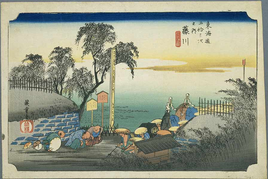 Fujikawa on the Tokaido, ukiyo-e prints by Hiroshige